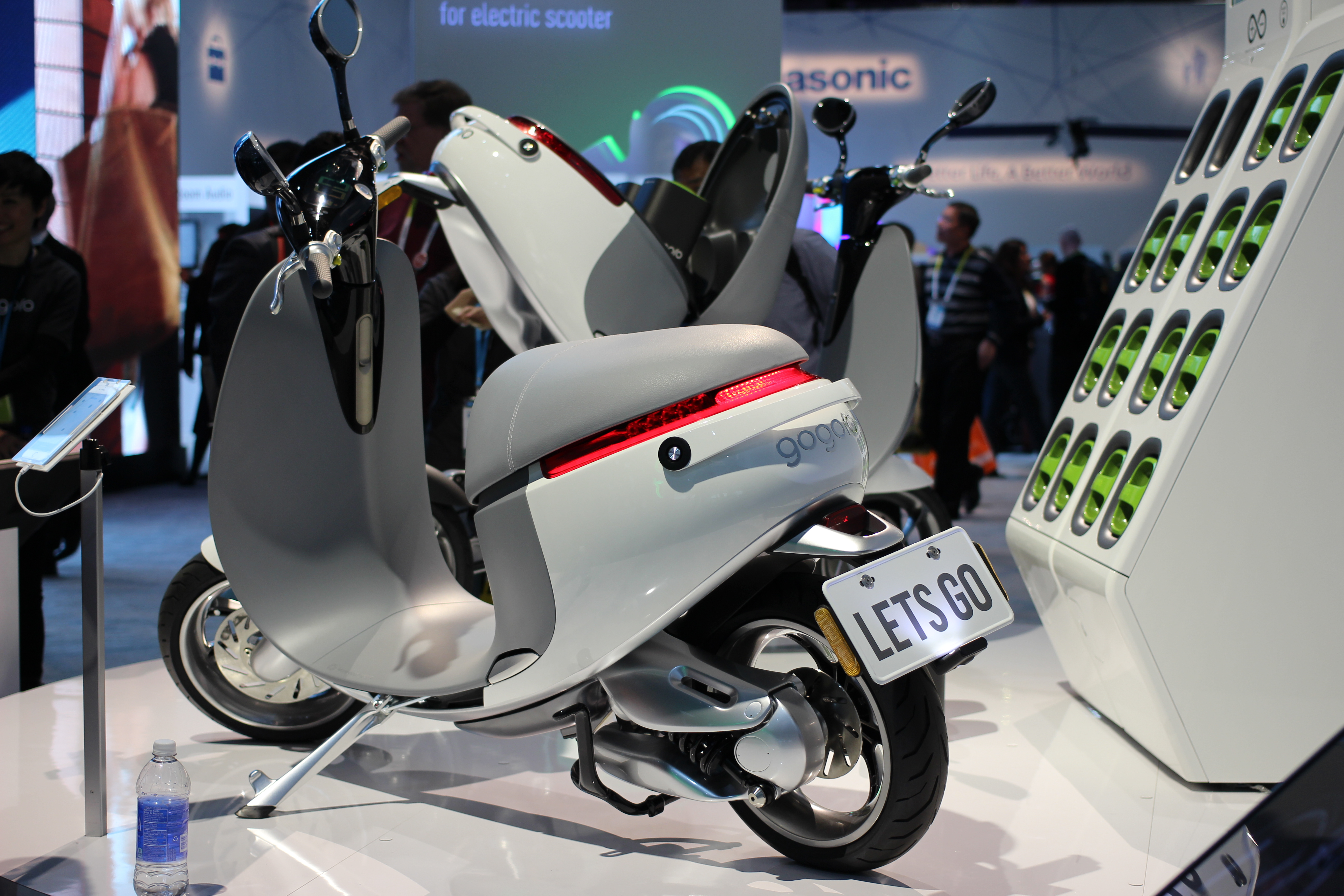 Gogoro Smartscooter